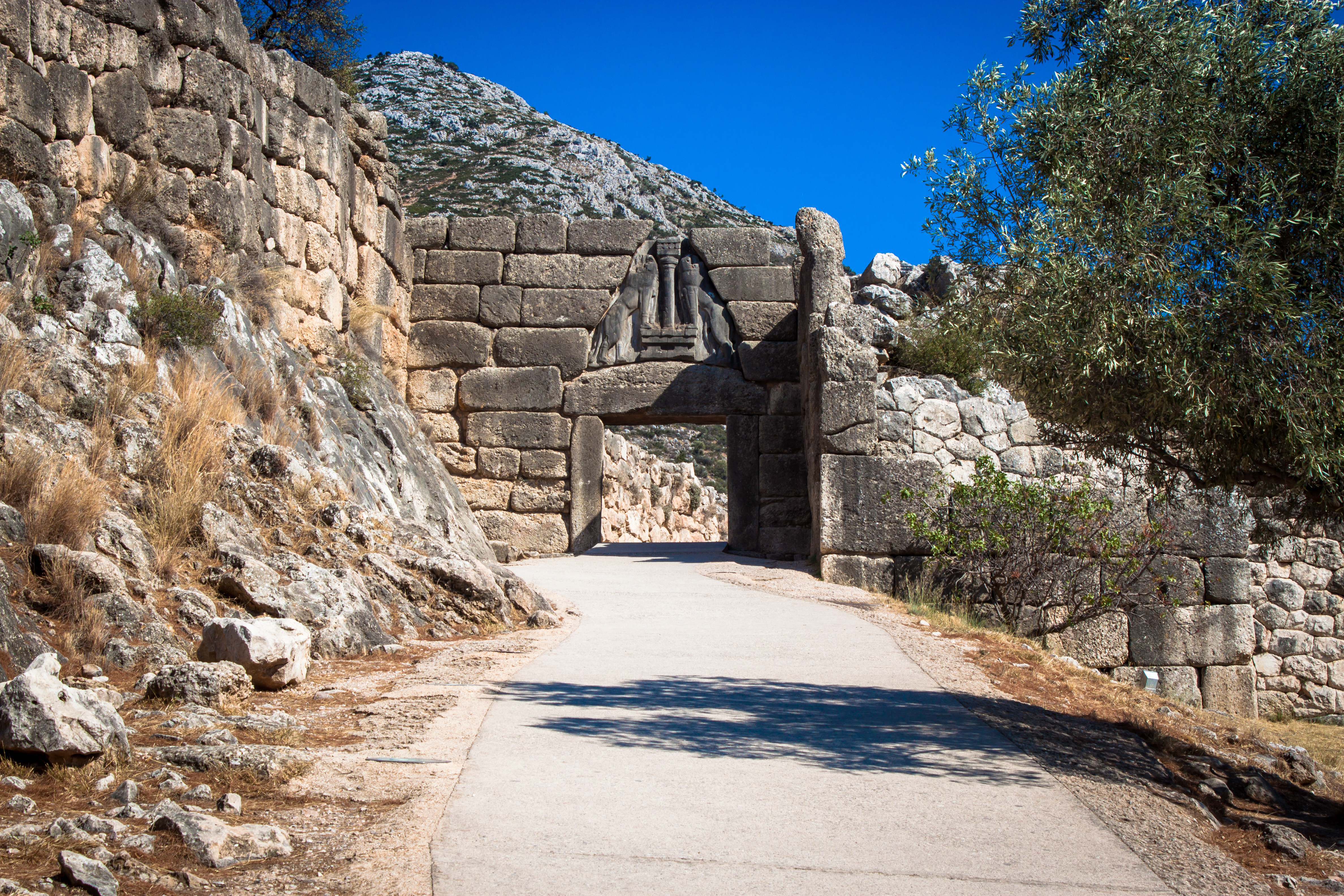 Path upto the Lion Gate, Mycenae